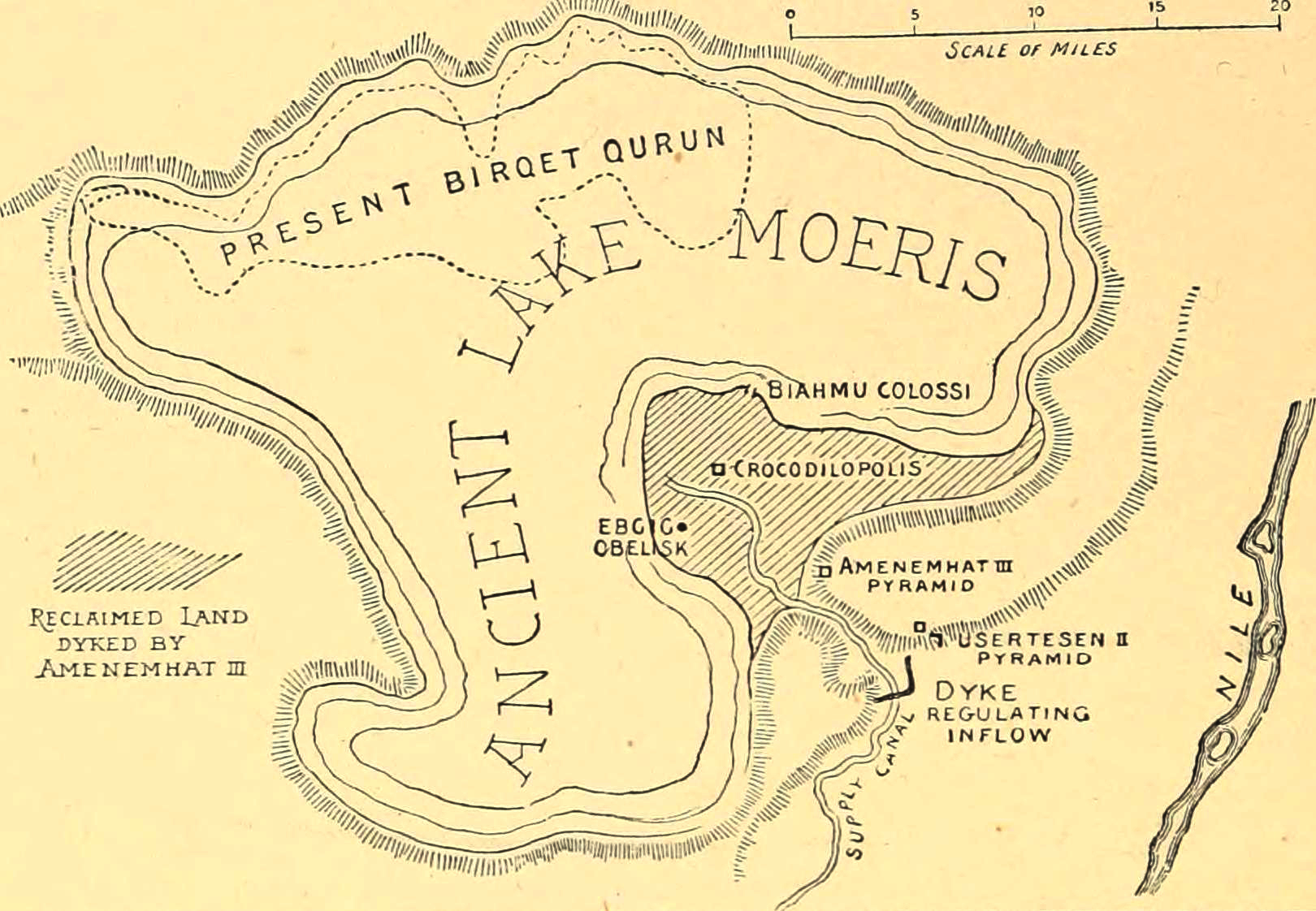 Map of ancient lake Moeris. The shaded part shows the the land reclaimed by the kings of the 12th Dynasty. Identifier: sacredbeetlepopu00wardrich Title: The sacred beetle: a popular treatise on Egyptian scarabs in art and history Year: 1902 (1900s) Authors: Ward, John, 1832-1912 Griffith, F. Ll. (Francis Llewellyn), 1862-1934 Subjects: Scarabs Egypt -- Antiquities Publisher: London, J. Murray